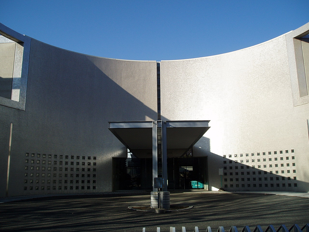 Administrative office of Arakawa Campus, Tokyo Metropolitan University. Located in Arakawa, Tokyo, Japan.